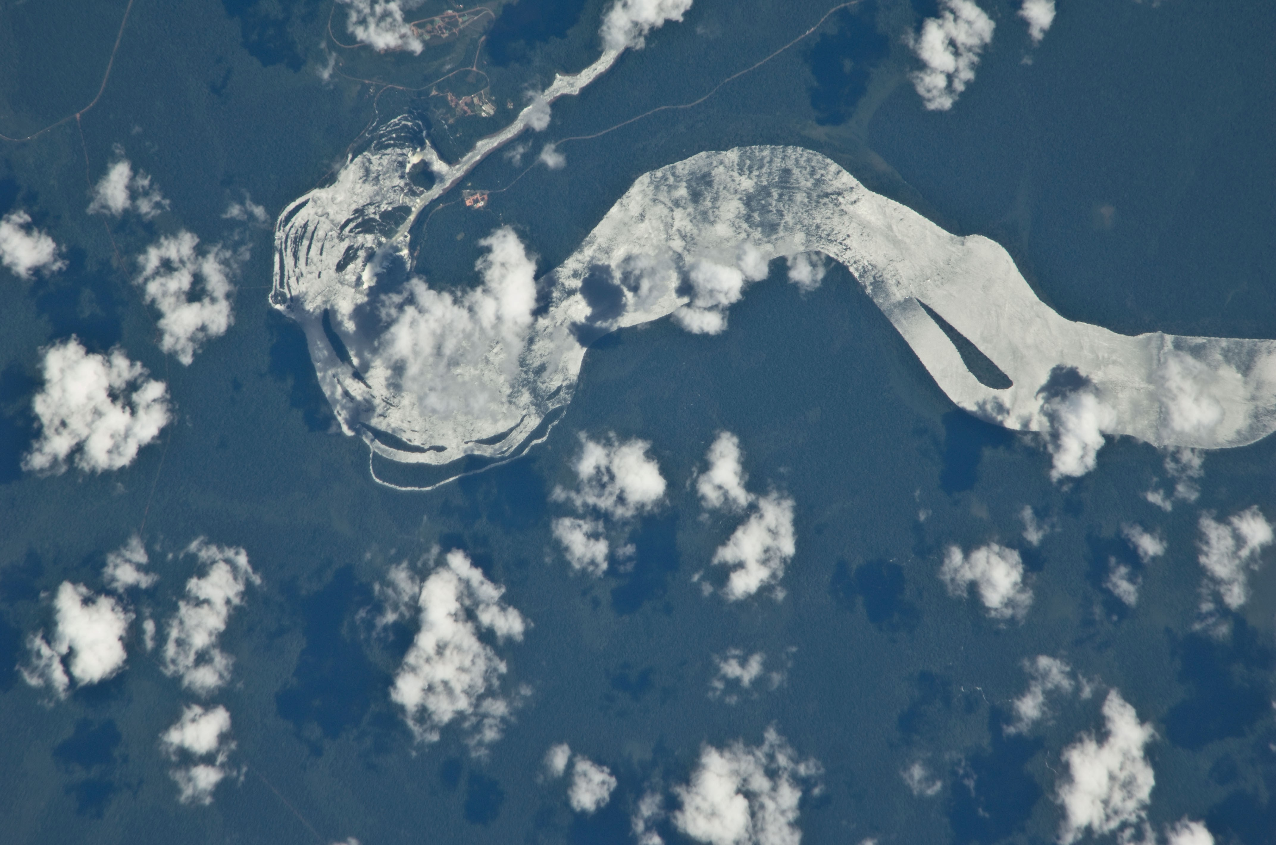 Satellite image of the Iguazu Falls.